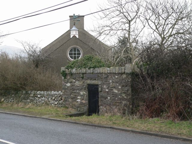 St. Aelhaearn's Well, Llanaelhaearn. A view of St. Aelhaearn's well, the building containing the well was constructed in 1900. The house behind is called Bryn Iddon. This was probably a popular stop for pilgrims on route to Bardsey Island.